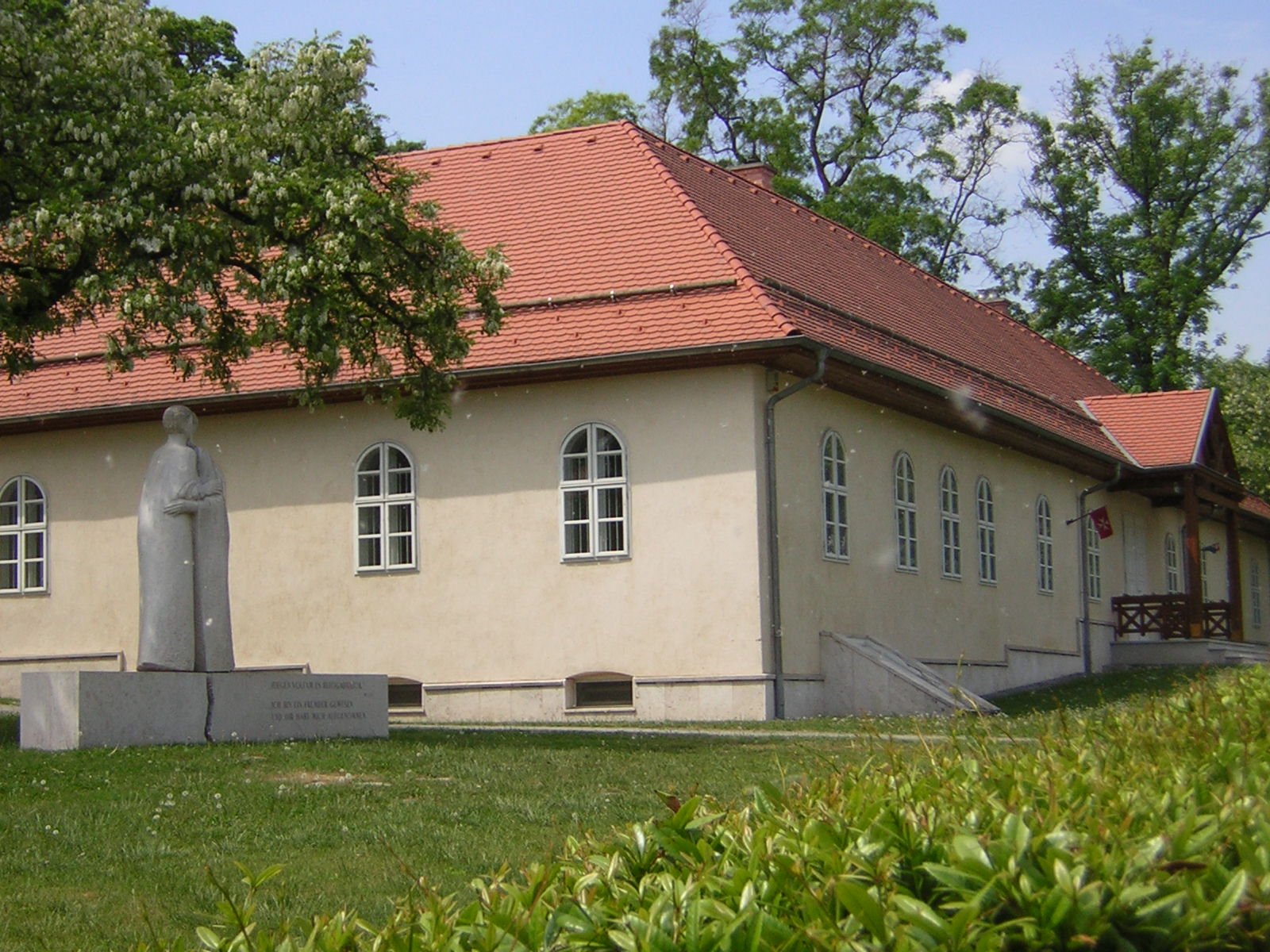 Building of the Laszlovszky farm with Reception's monument Today the the Hungarian Malteser Organization's headquarter.